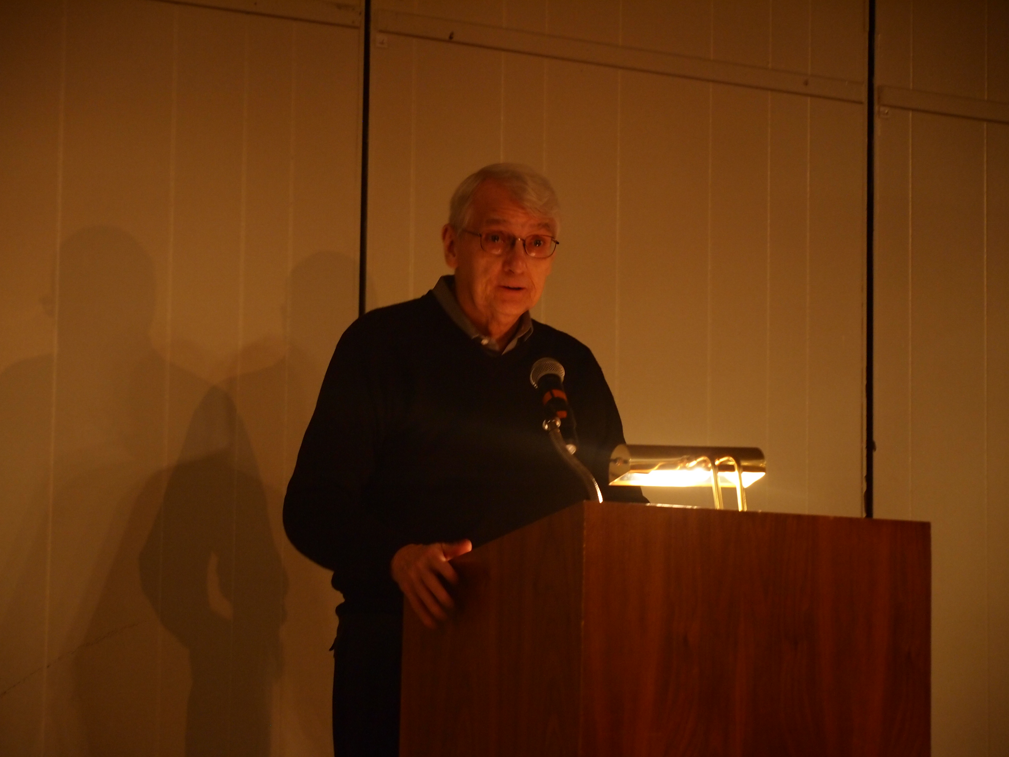 Photo taken of Gurney Norman at James Baker Hall Writers Series event at UK